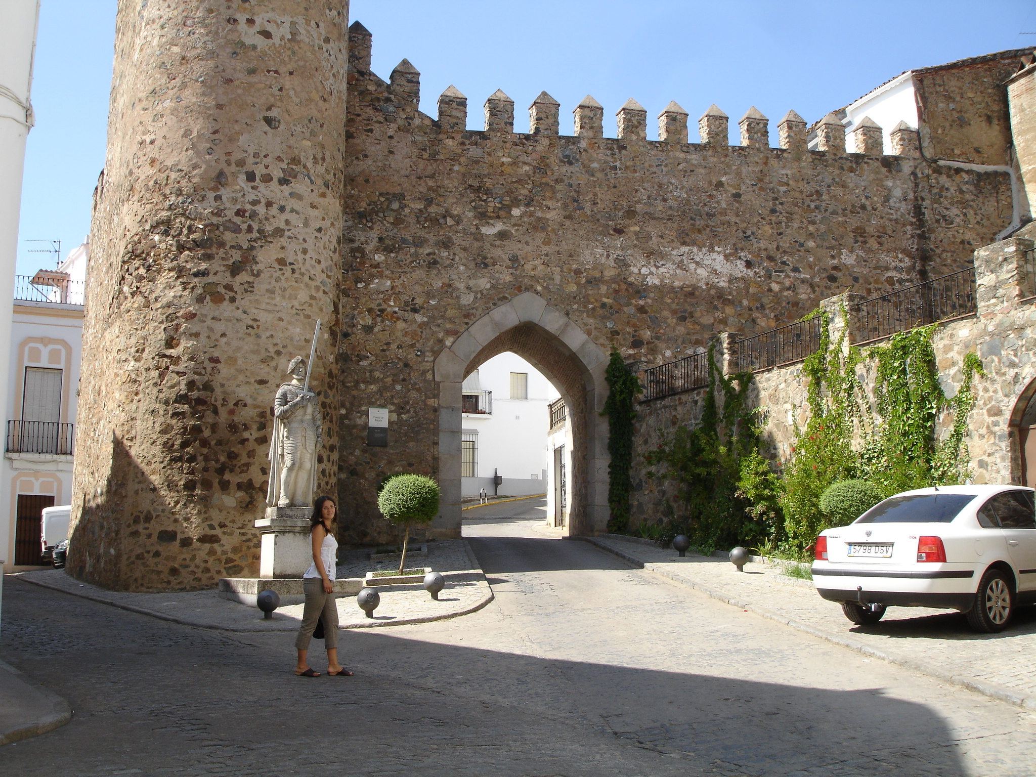 Jerez de los Caballeros town wall